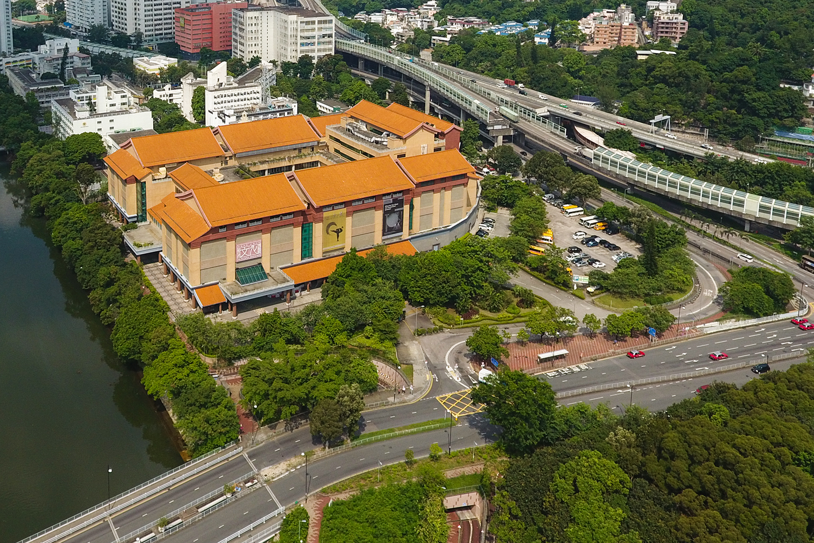 Road T4 Reserved area